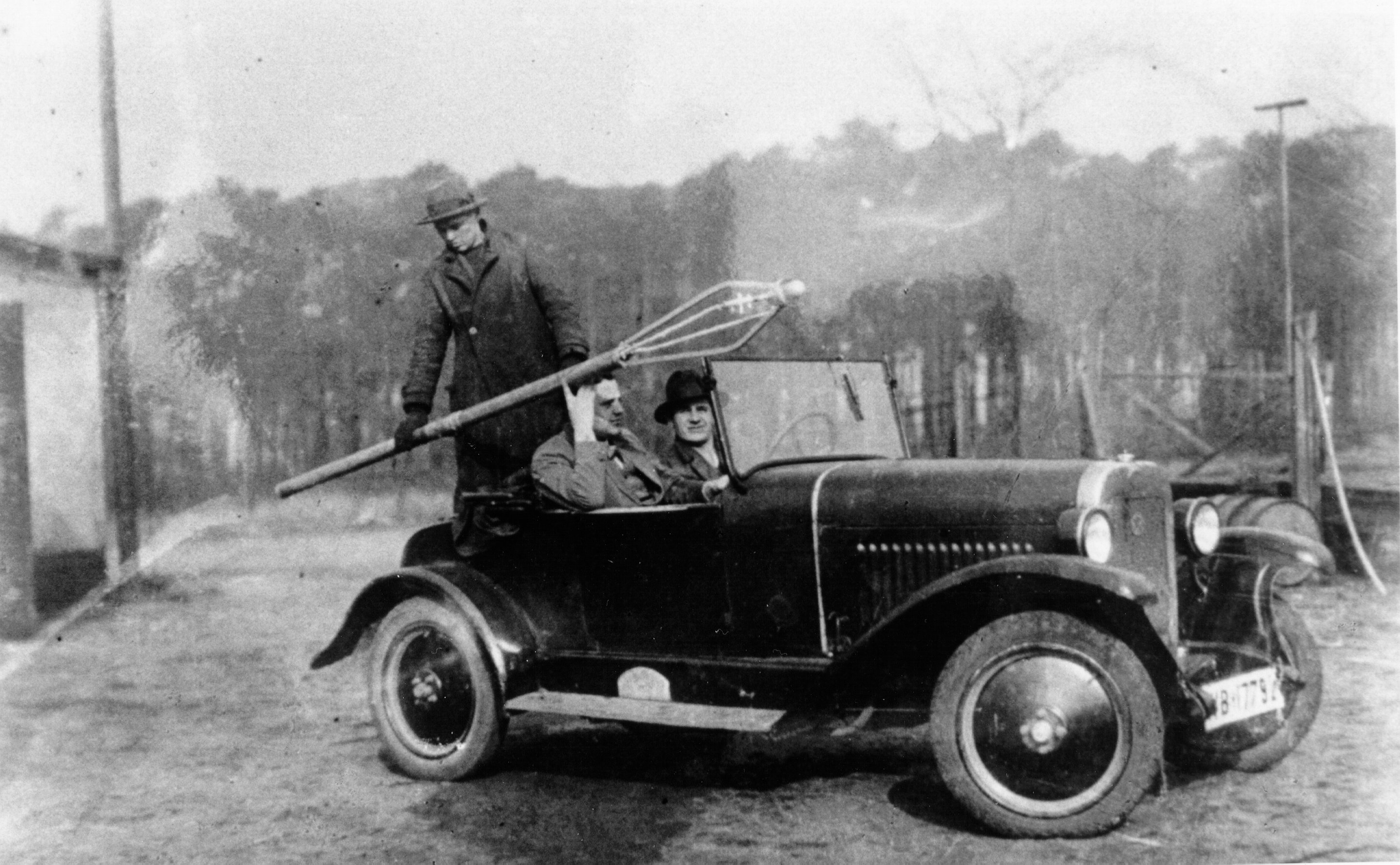 The Verein für Raumschiffahrt ("VfR"